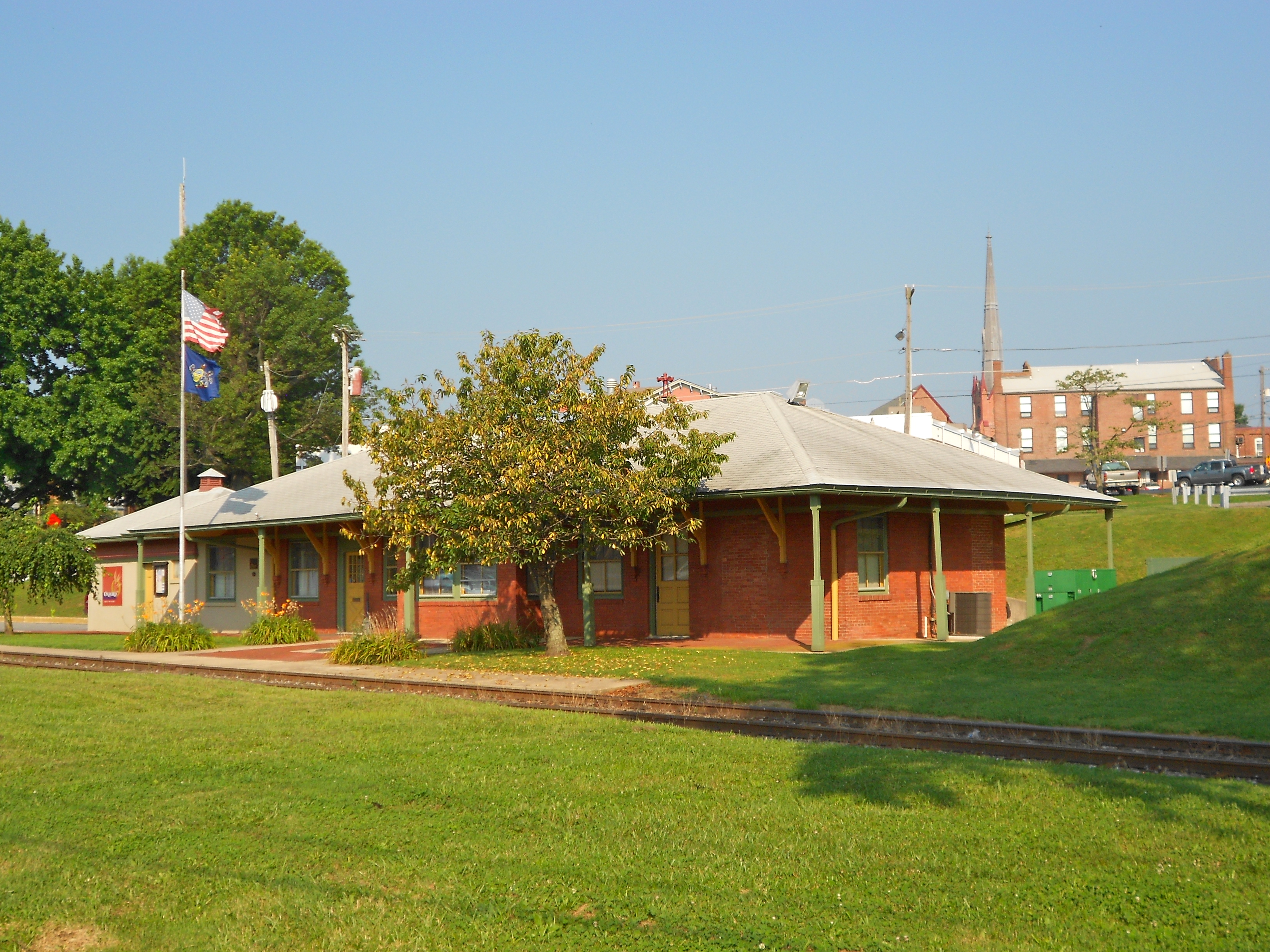 Building in the Oxford Historic District on the National Register of Historic Places since February 1, 2007. the district is roughly bounded by Church Road (N), Chase Street (E), and Hodgson Street (S).